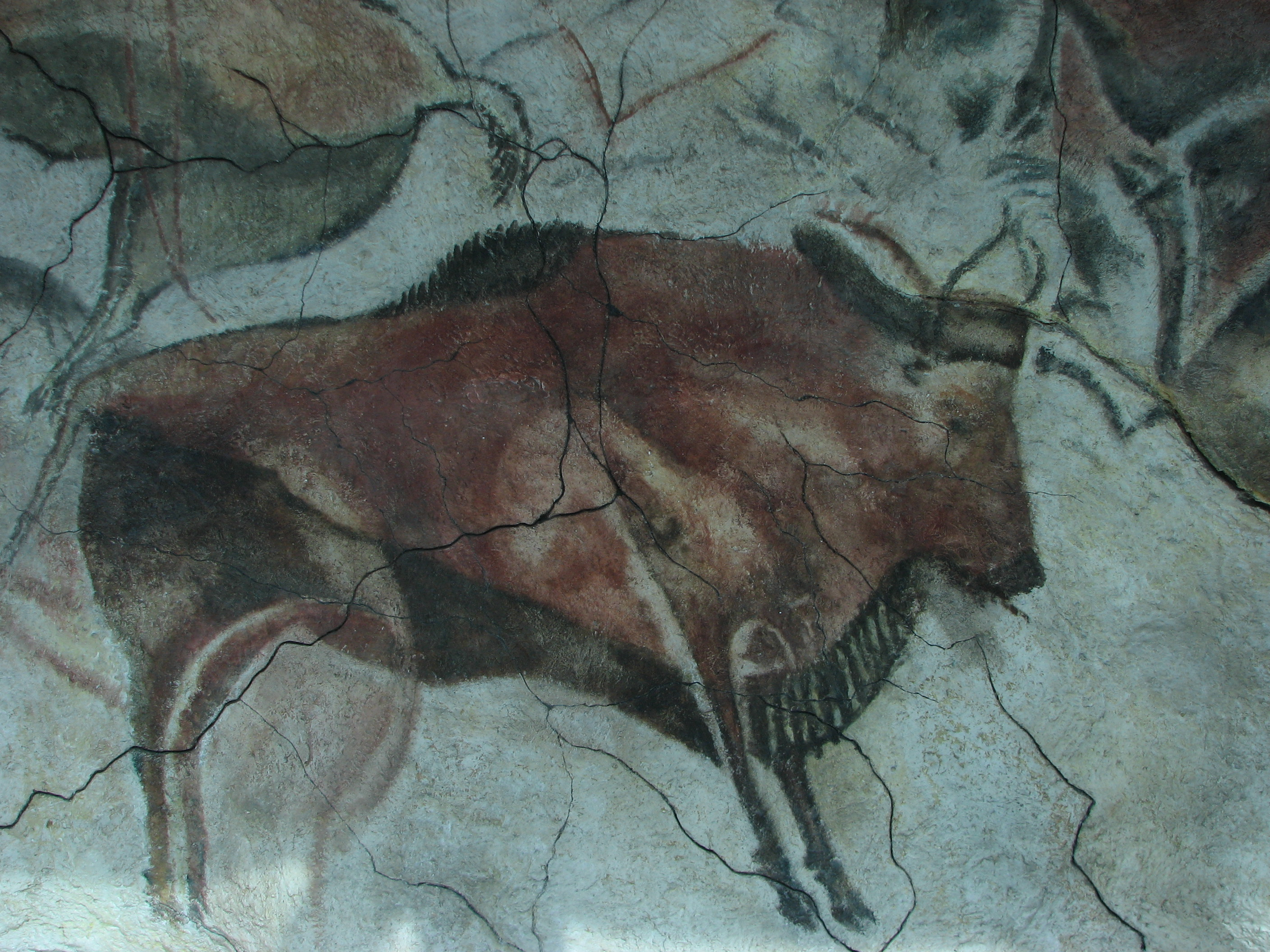 Bison from the model of the ceiling of Altamira, in the Brno museum Anthropos